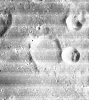 LOIV 067 H2 image of Hooke lunar crater